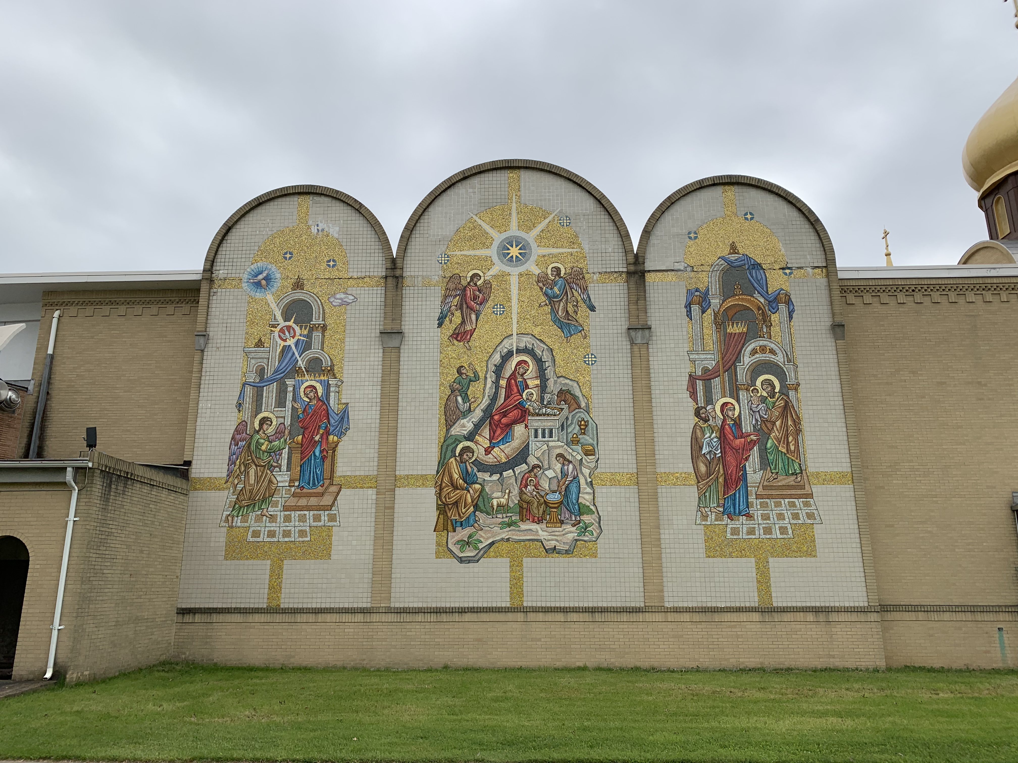 Close up of a mural on the east side of the Cathedral of St. John the Baptist in Parma OH in May 2019.